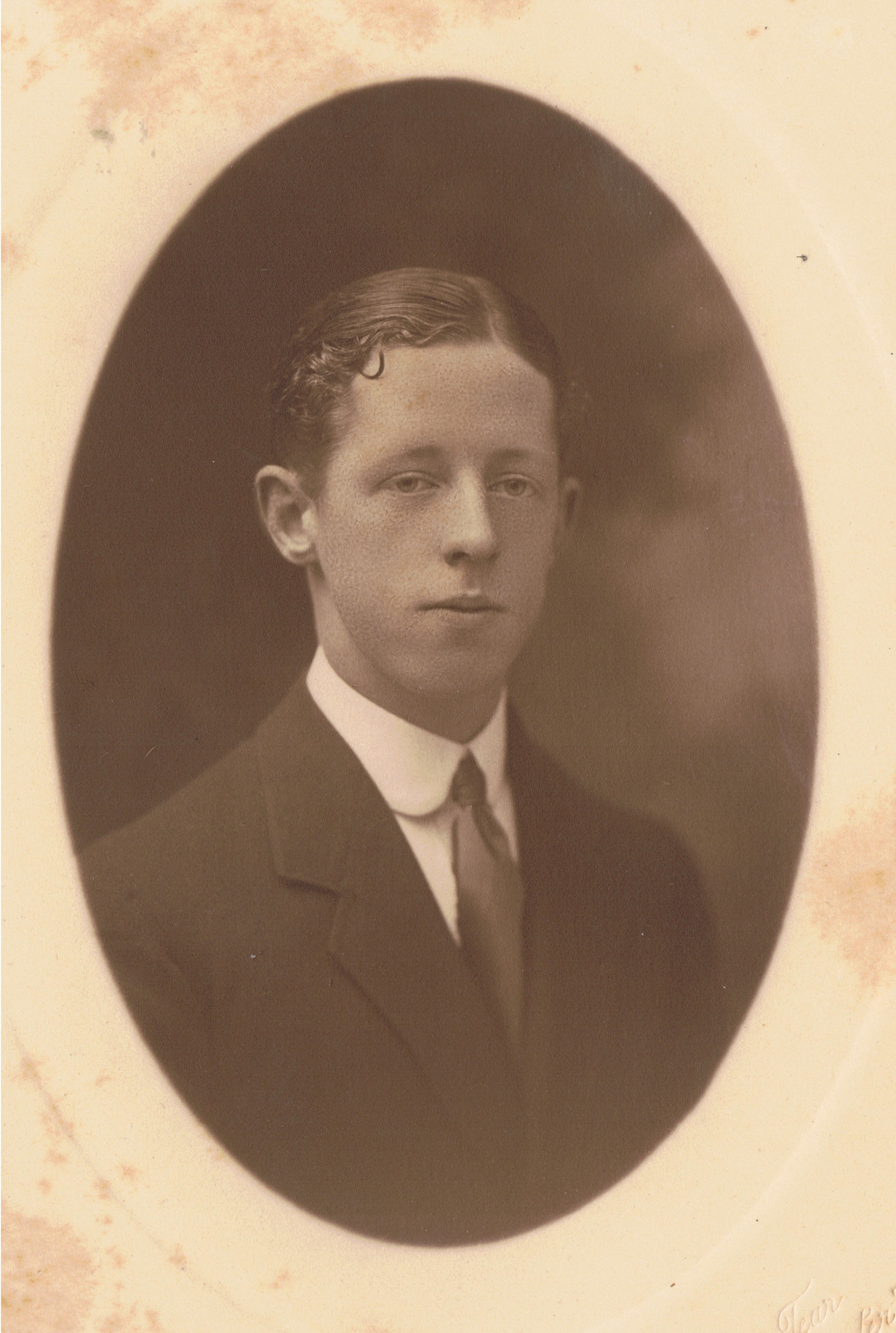 Scan (by me, R. de Salis, Rodolph (talk) 19:10, 16 December 2014 (UTC)) of a photo of John Peter Fabius Fane de Salis (NSW 1897-†Bouchavesnes, 22.1.1917), by Adolphus Tear, late of Australia and India, of 42, High St., Notting Hill Gate, London, W. (by time this was taken , Bayswater, W.) Other information Adolphus Tear, late of Australia and India, of 42, High St., Notting Hill Gate, London, W. File:Logo_of_Adolphus_Tear_(1862-1925)_of_42,_High_Street,_Notting_Hill_gate,_London,_W.jpg